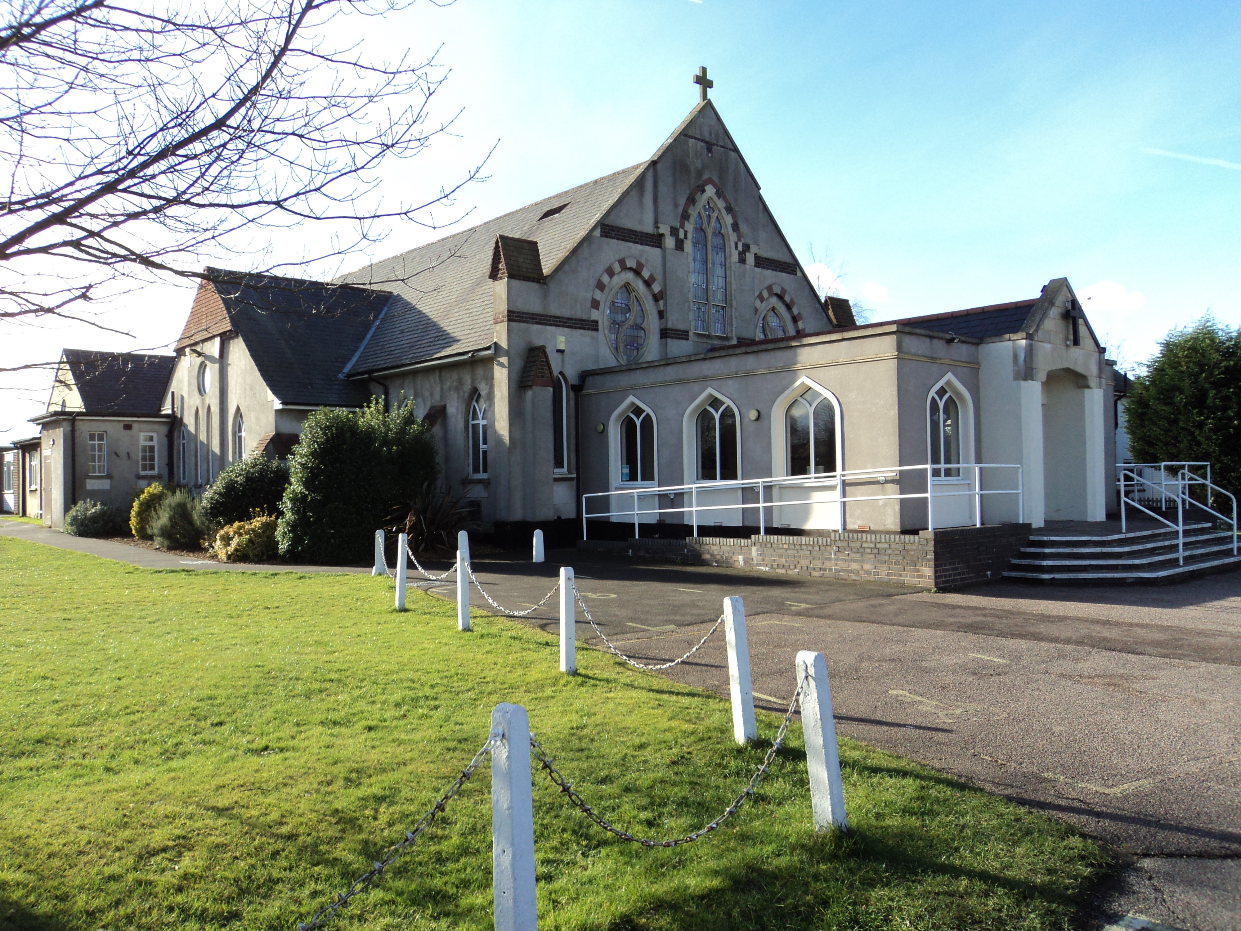 Rayleigh Methodist Church, photo taken from Eastwood Road